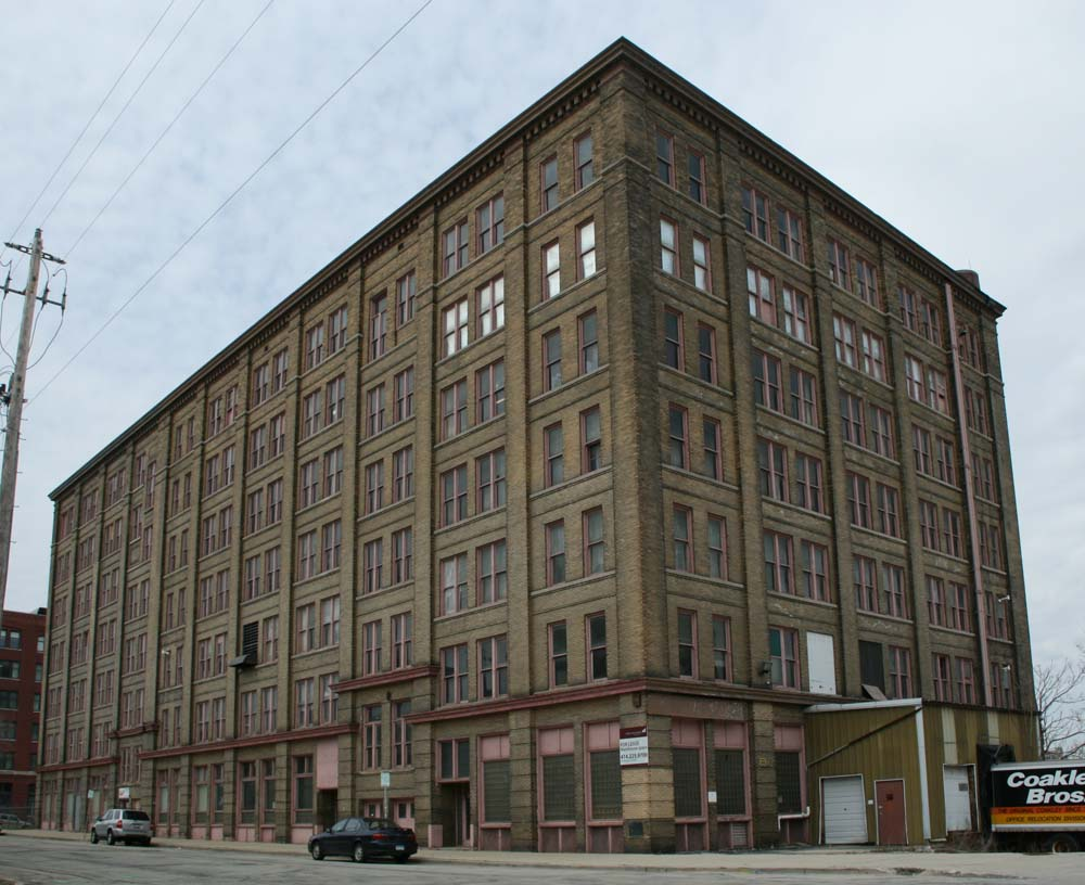 An industrial building on West Florida Street, Milwaukee, Wisconsin. Part of the Florida and Third Industrial Historic District, National Registered Historic Place.